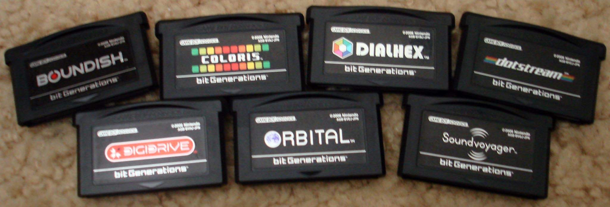 The Game Boy Advance cartriages in the Bit Generations series.